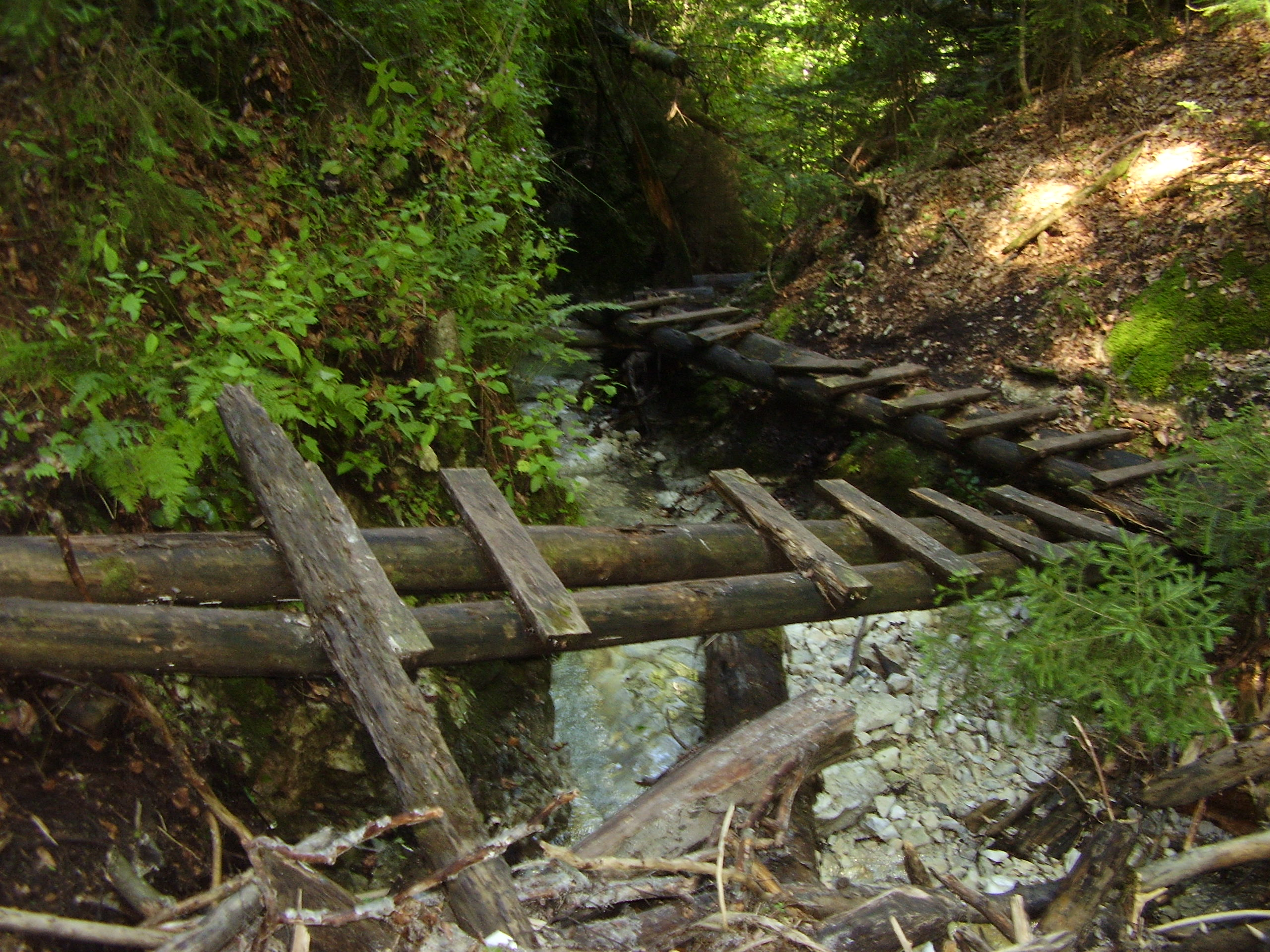 Broken ladders in Veľký Kyseľ canyon